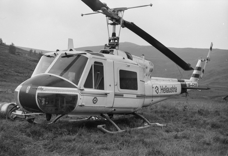 Heli Austria